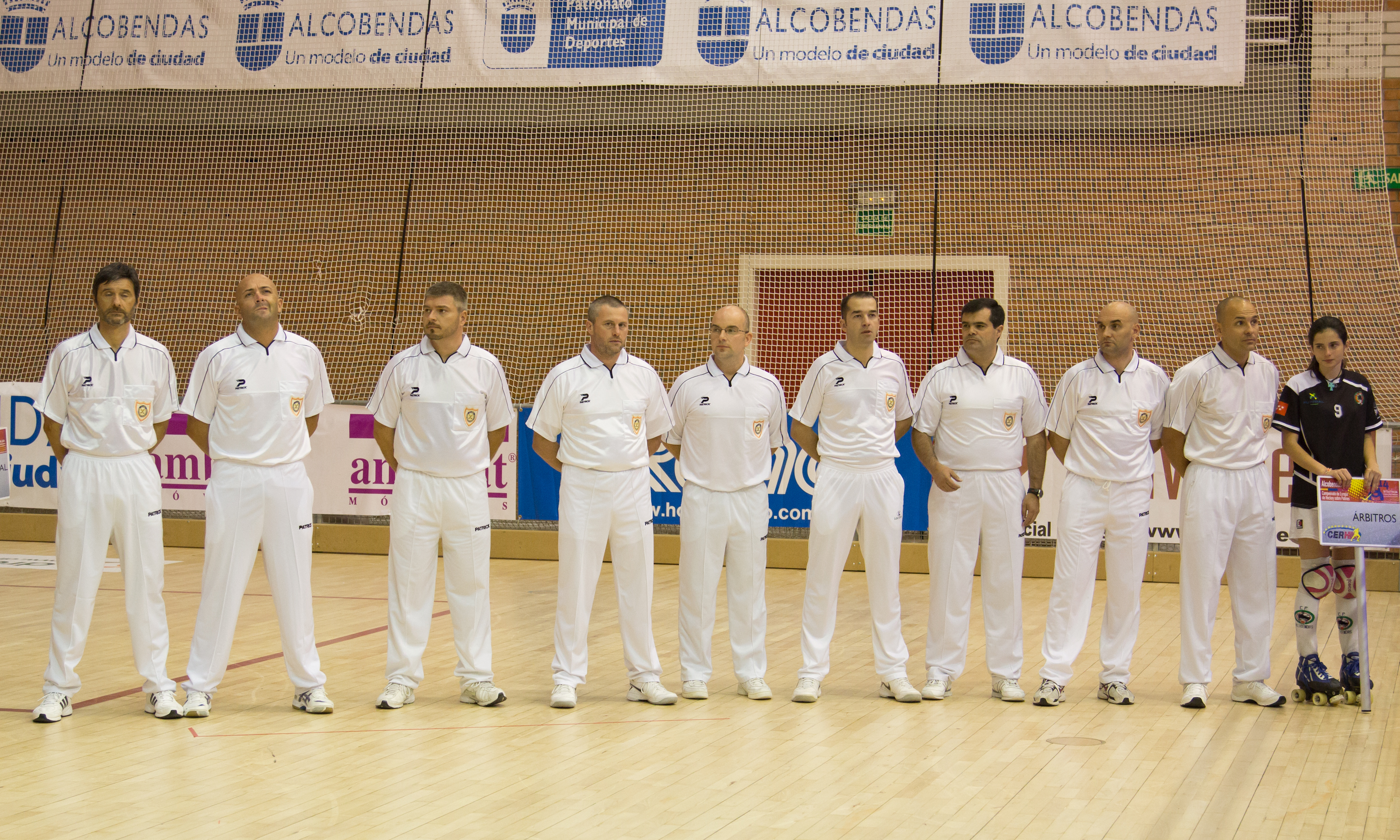 Referees of the 2014 CERH European Championship in Alcobendas, Spain.